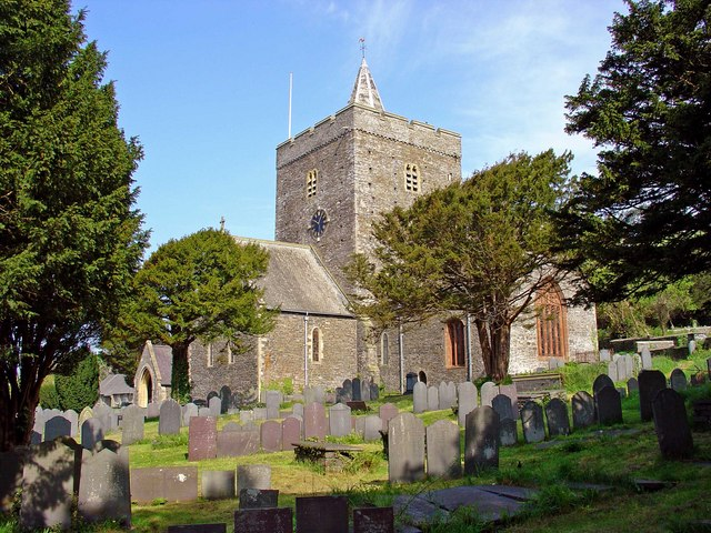 Parish church: Llanbadarn Fawr: from the southeast